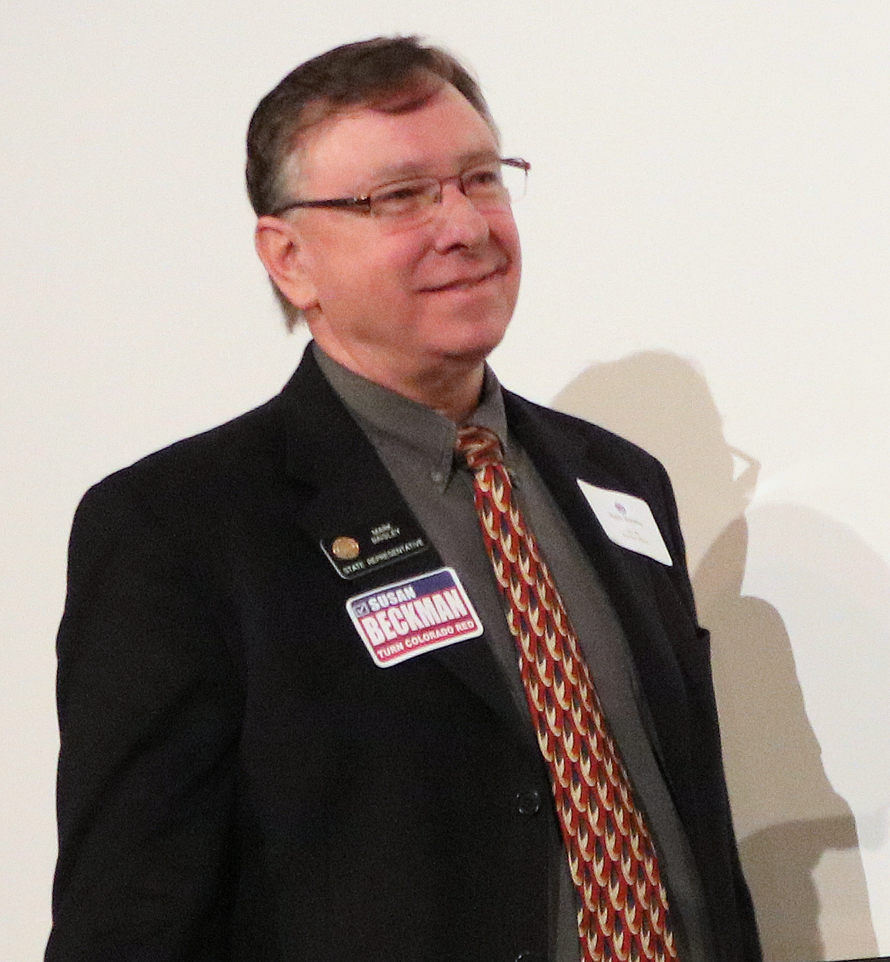 Mark Baisley, a politician from Colorado.